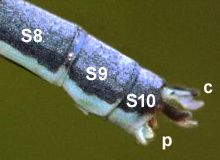 Terminal segments of the abdomen of a male damselfly (Pseudagrion caffrum) showing segments 8-10 (S8, S9, S10), the upper or superior appendages or cerci (c) and the inferior appendages or paraprocts (p). Original file by Alandmanson. Color of labels altered to white for contrast.